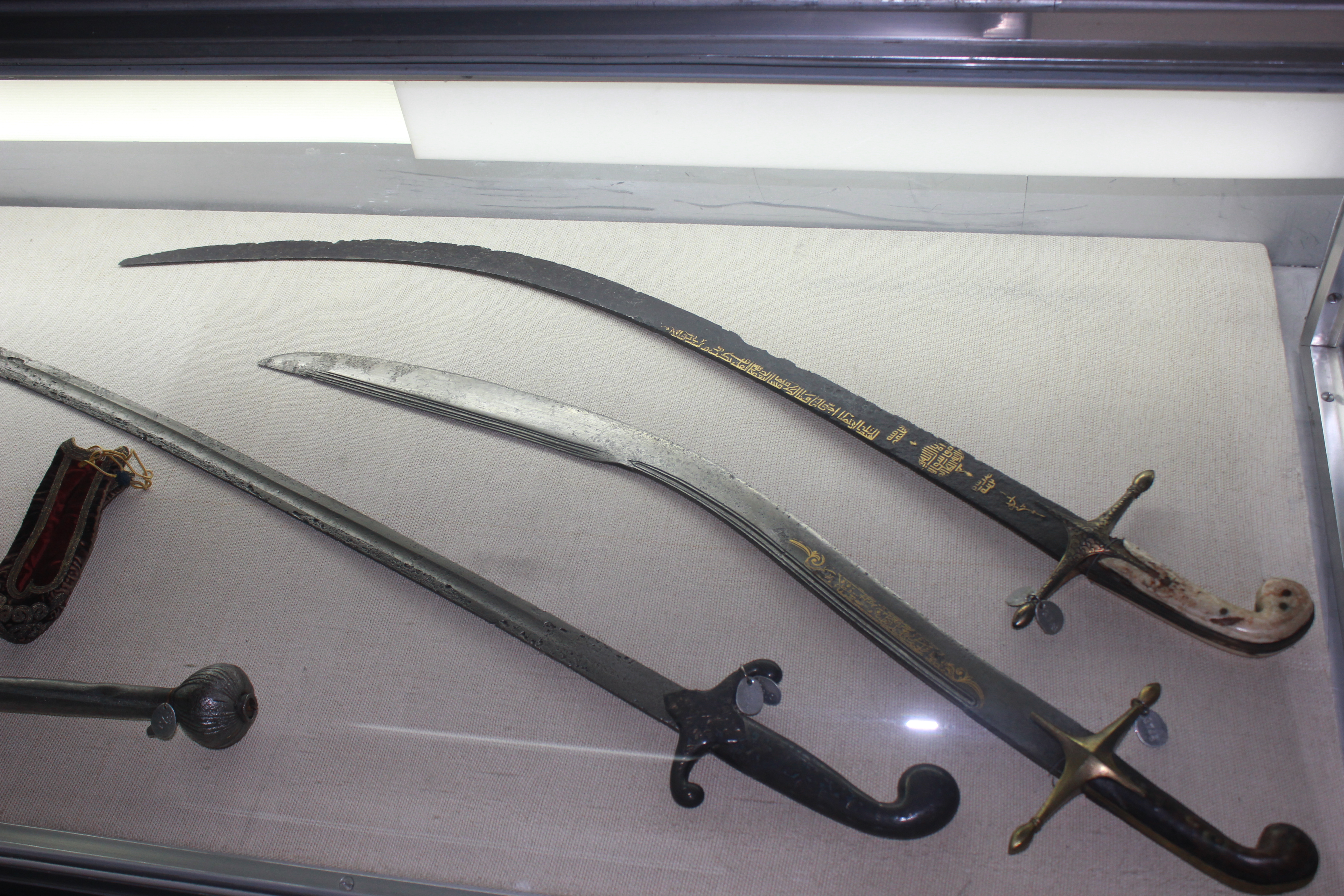 Sbares used by Ottoman soldiers from XIII to XIX century